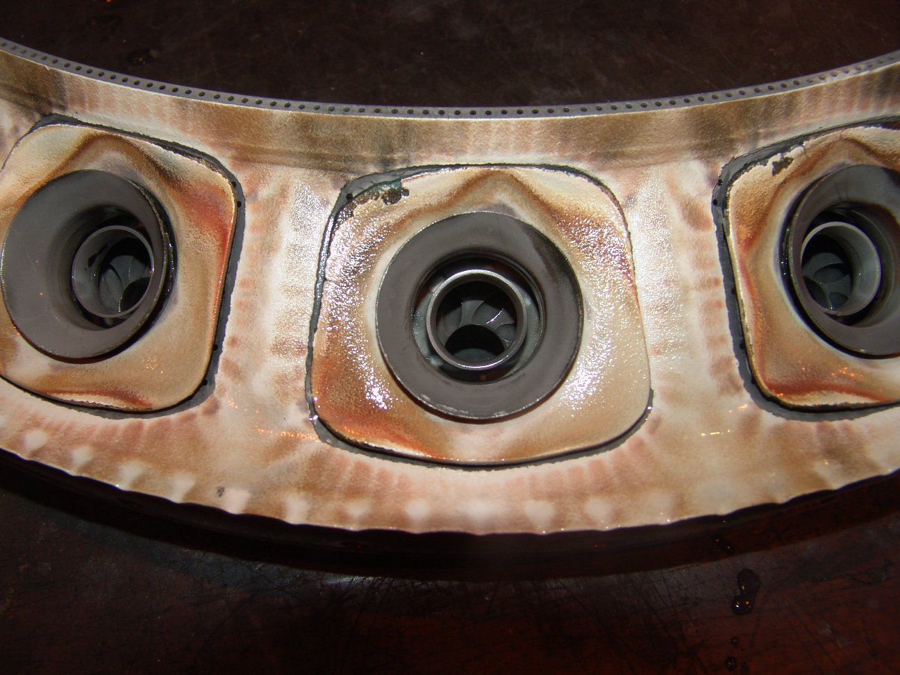 Detail of a fuel nozzle swirl cup in a CFM56-3 engine combustion chamber dome.